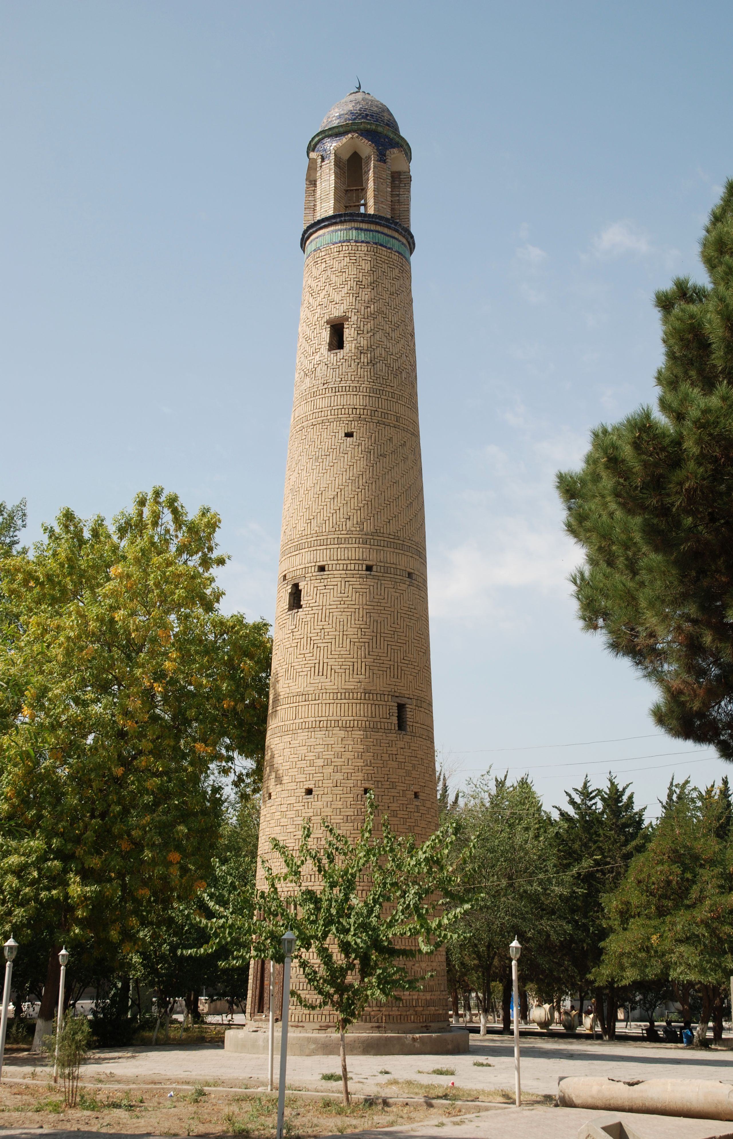 Konibodom, minaret on Lenin street